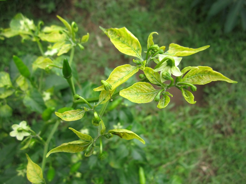 Symptom of pepper yellow leaf curl virus ("penyakit kuning"). Klaten, Indonesia.